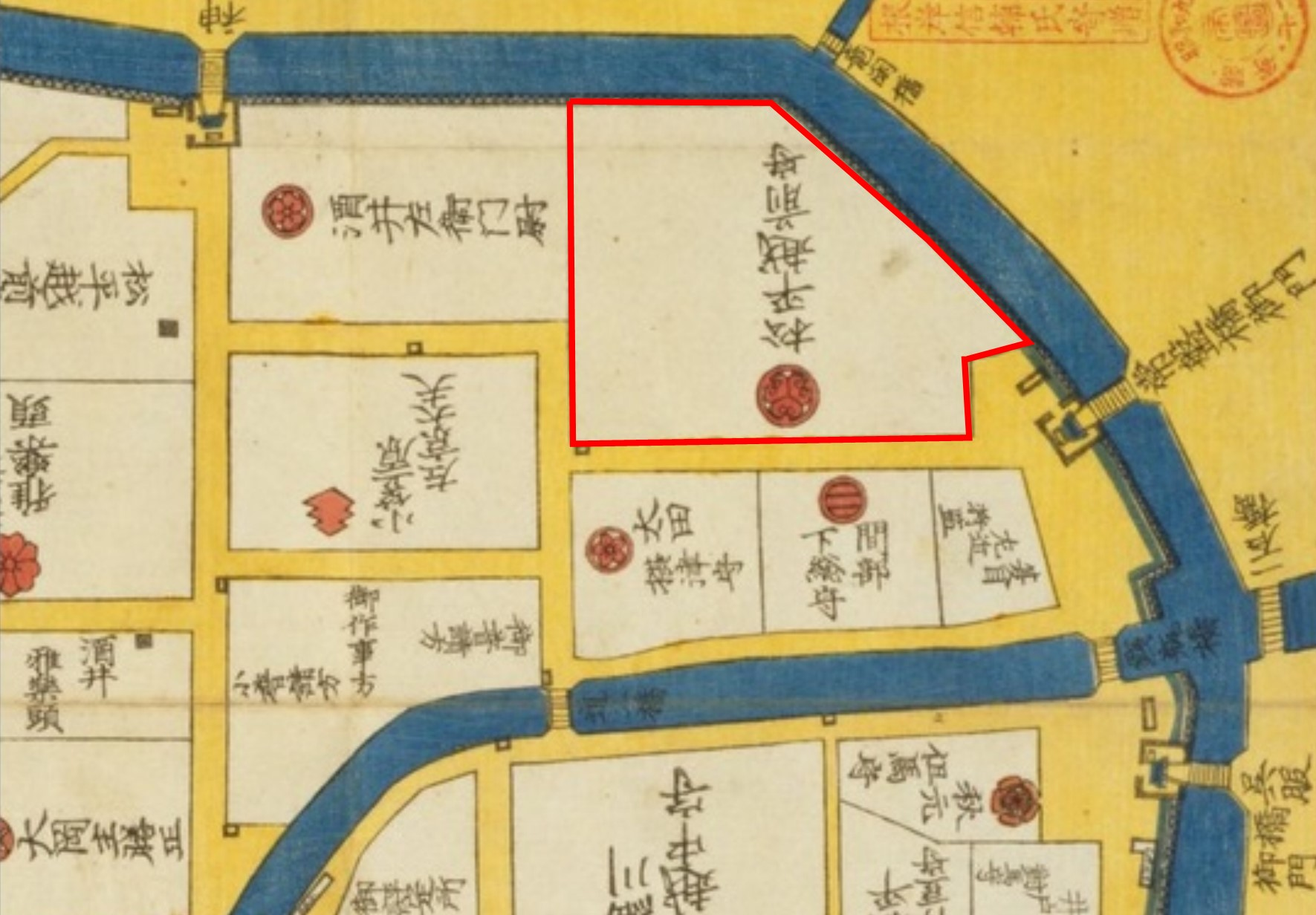 Residence of Matsudaira Echizen at Edo